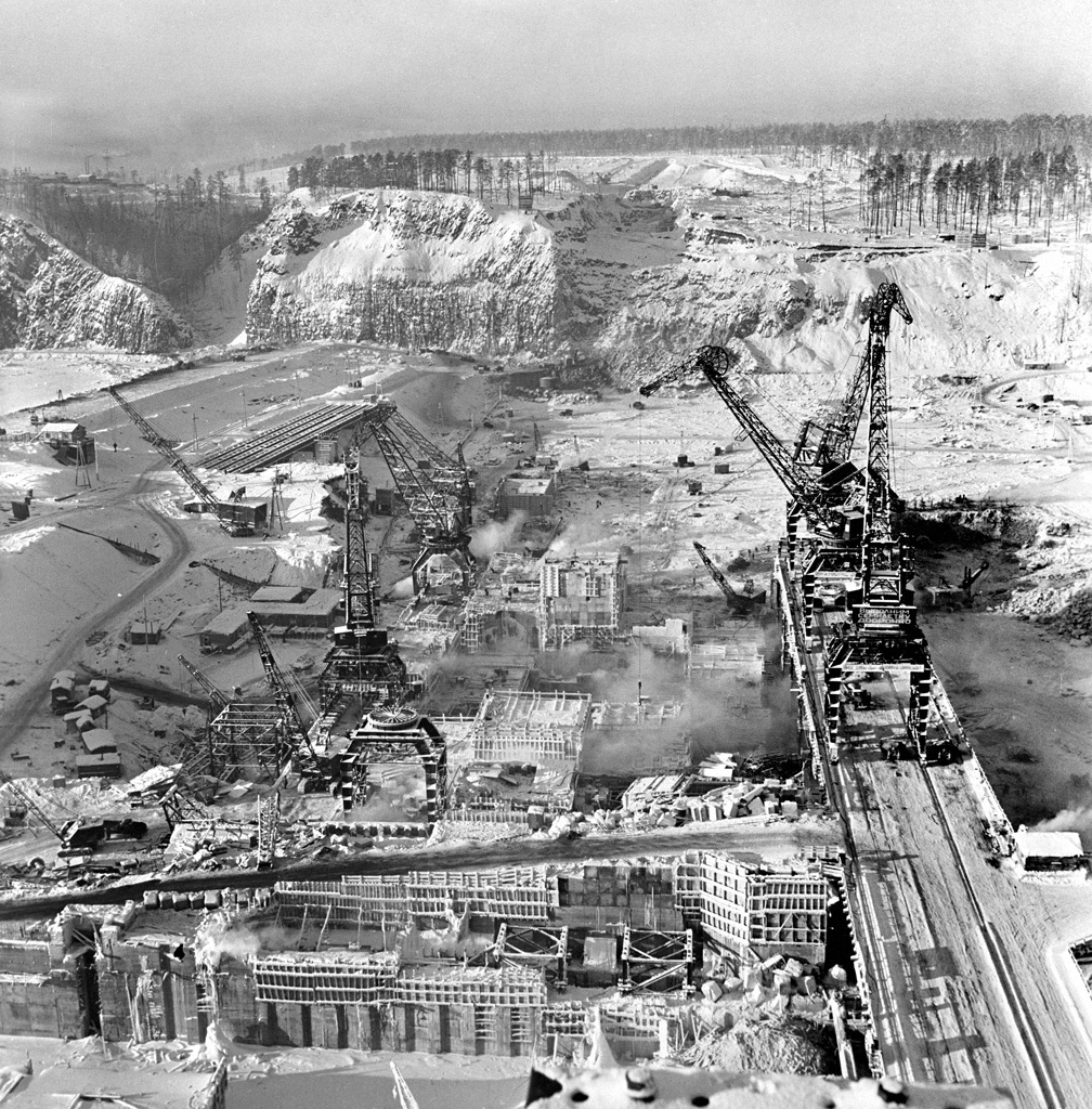 “Construction of Bratsk hydroelectric plant”. Construction of the Bratsk hydroelectric power plant on the Angara River.